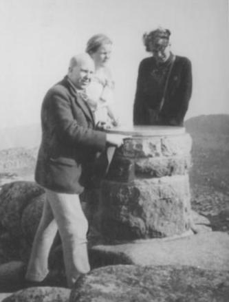 Photo taken by the submitter's mother and scanned by the submitter. Alan and Susan Ogilvie and Doris Ogilvie on the summit of Lochnagar in 1933.